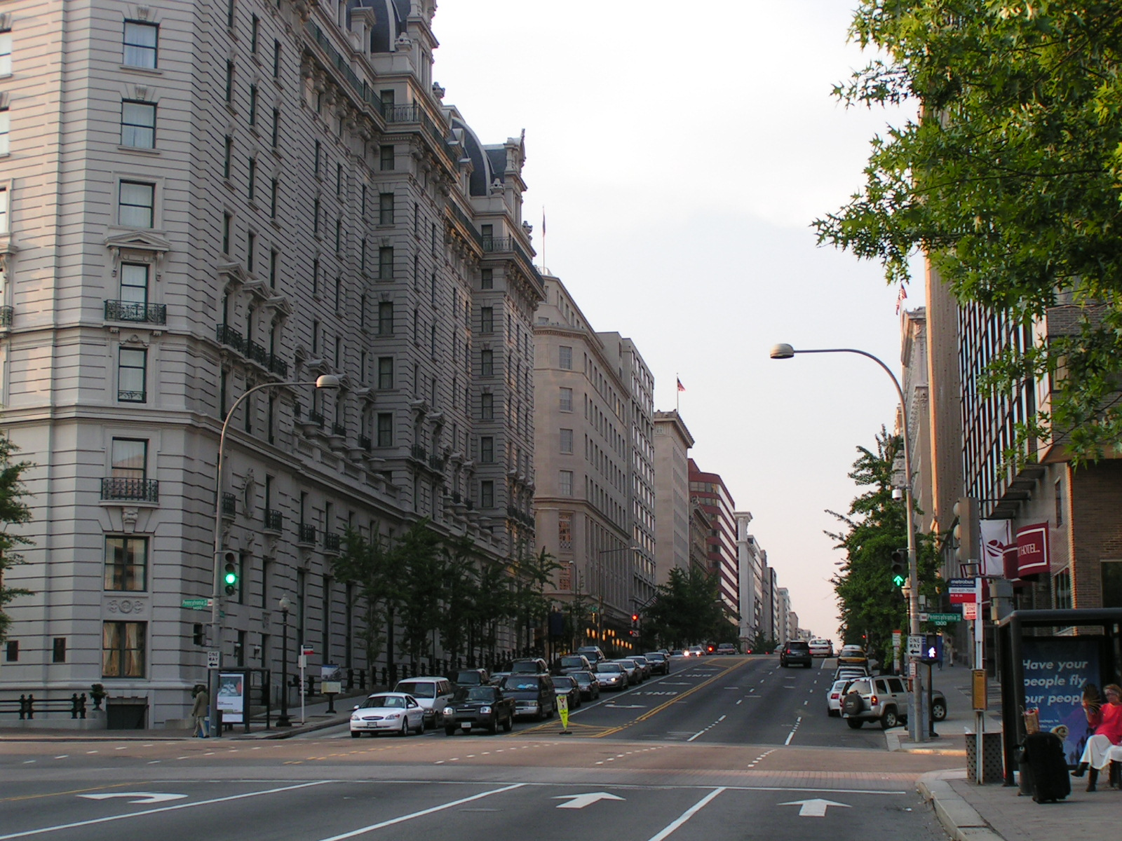 Ciudad, Washington, D.C. (Looking north up 14th Street NW at the intersection of 14th Street NW and Pennsylvania Avenue NW. The J.W. Marriott Hotel is on the right-hand side of the picture.